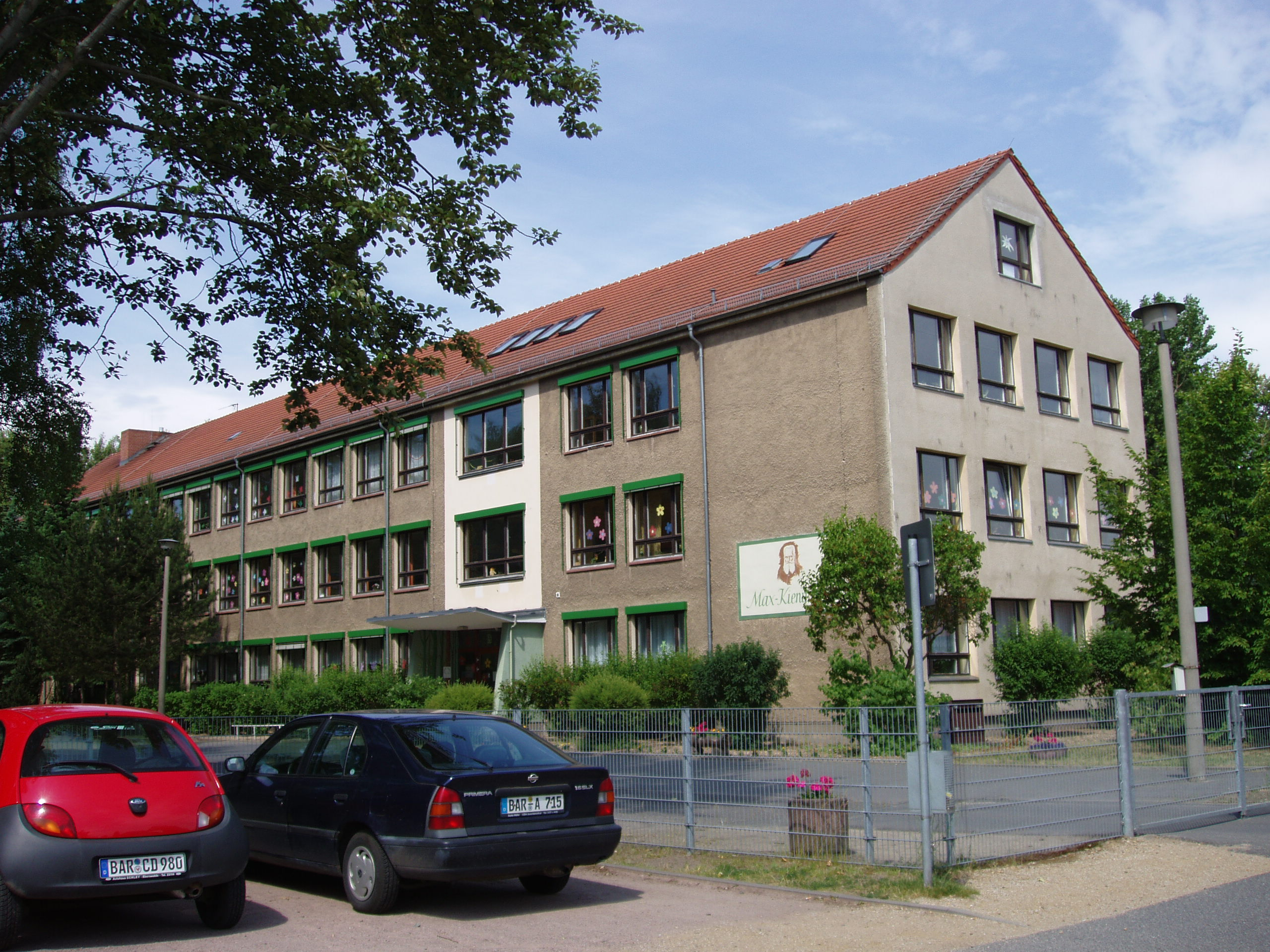 school house, Britz near Eberswalde, Brandenburg, Germany